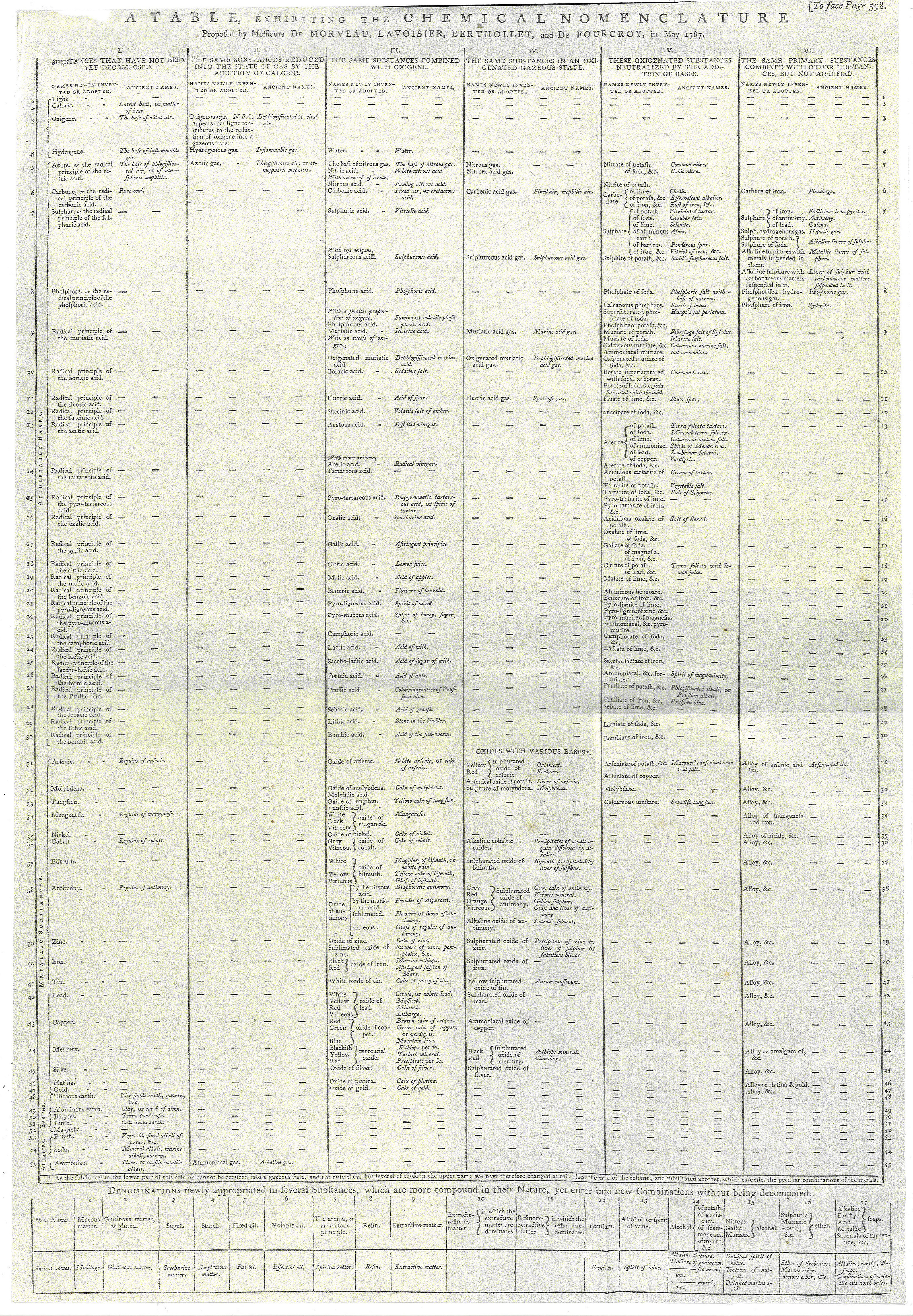 Chemistry chart introducing the new nomenclature